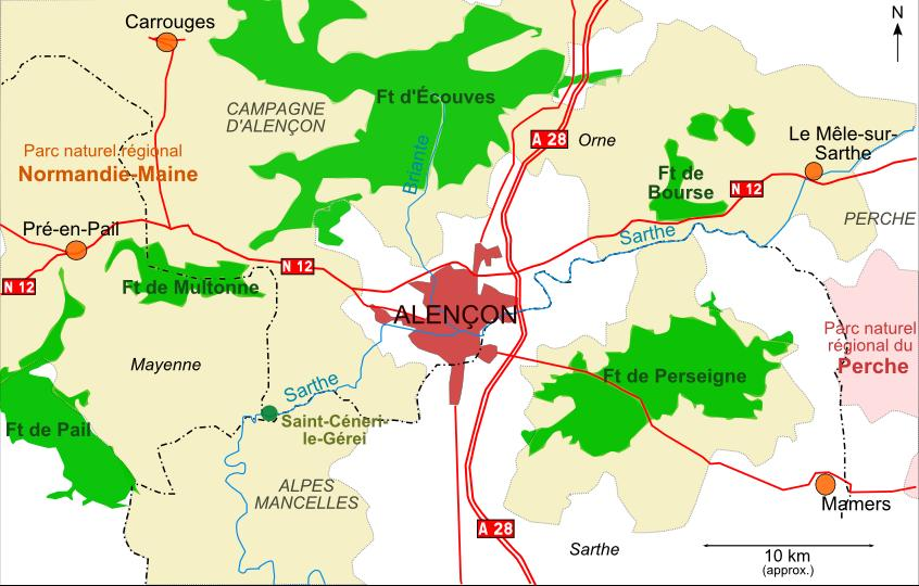 Alençon and its neighbourhoods